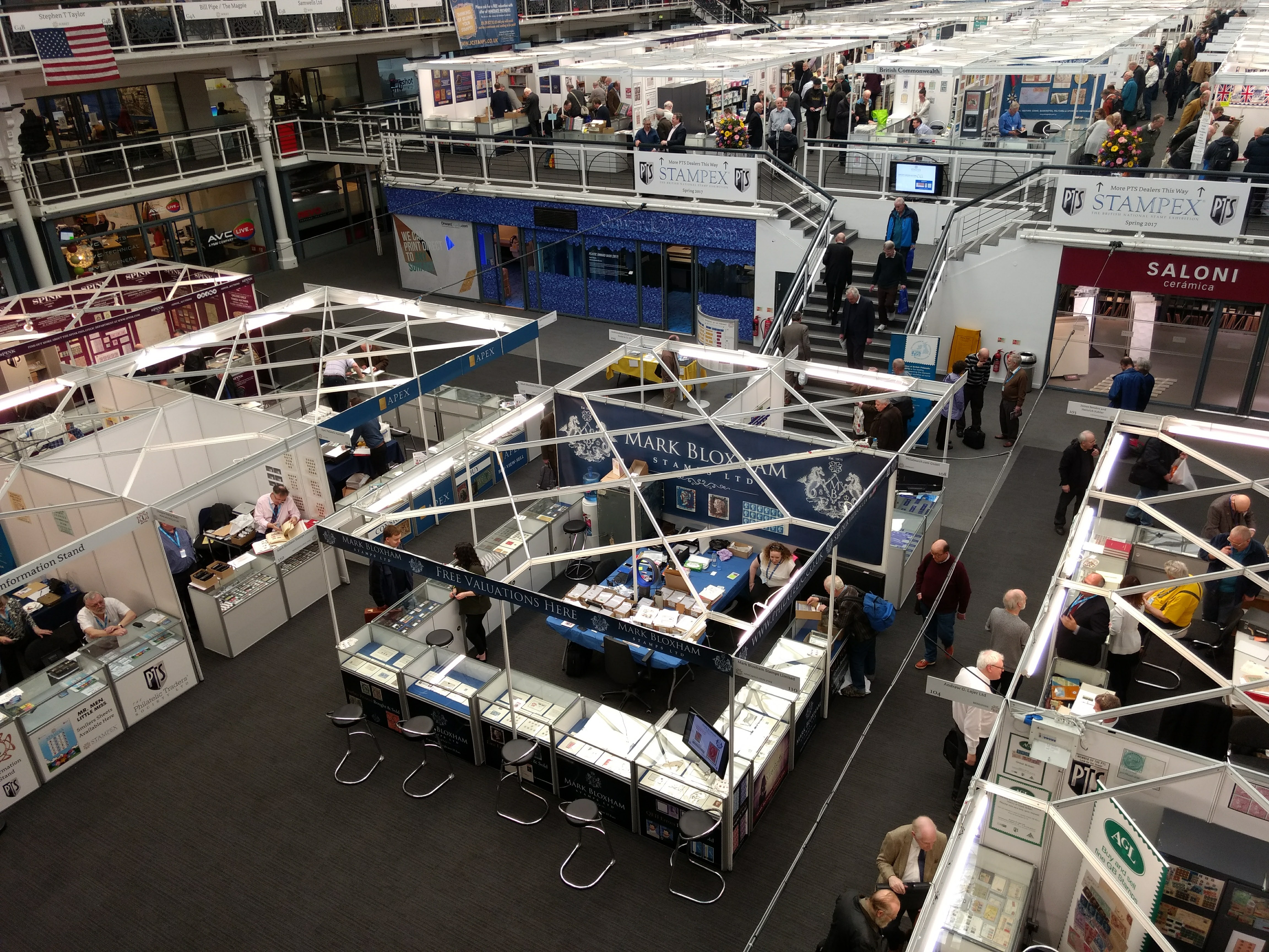 Spring Stampex 2017